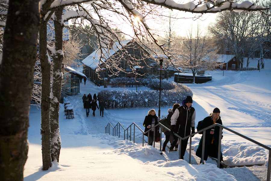 Campus Ultuna in the winter time. Photo by Jenny Svennås-Gillner, SLU